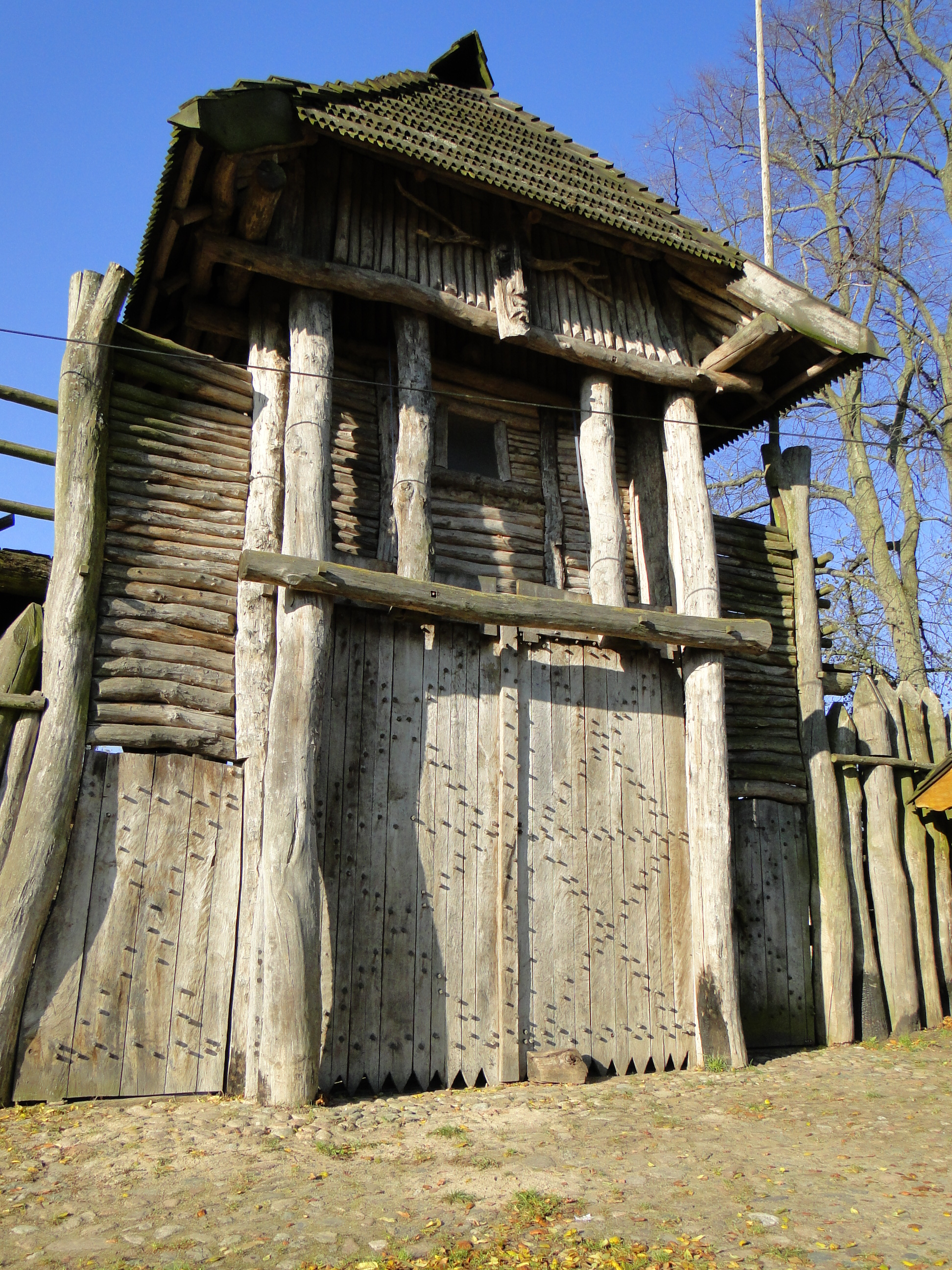 Slavic village in Passentin, district Müritz, Mecklenburg-Vorpommern, Germany